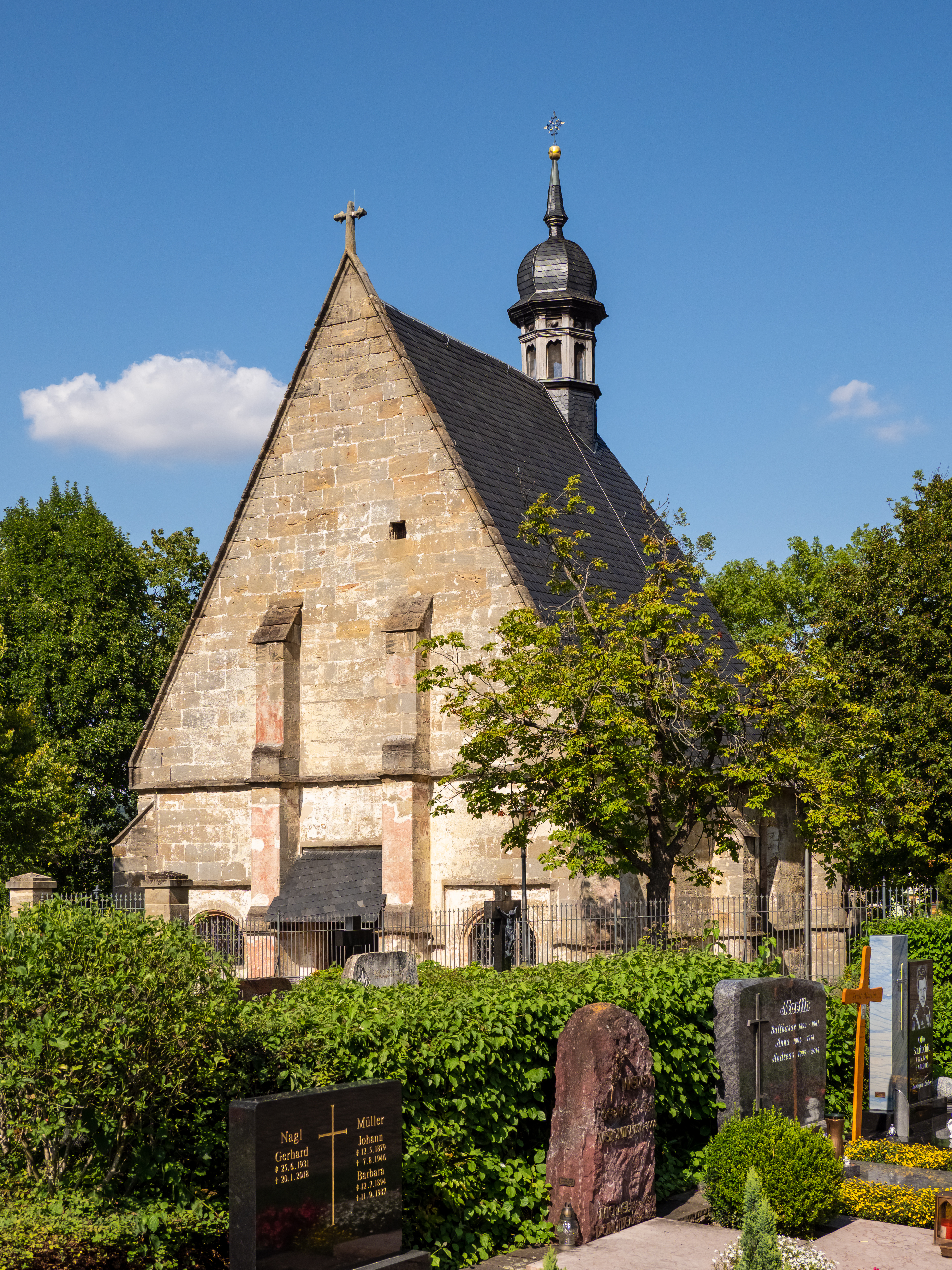 Magdalene Chapel in Baunach